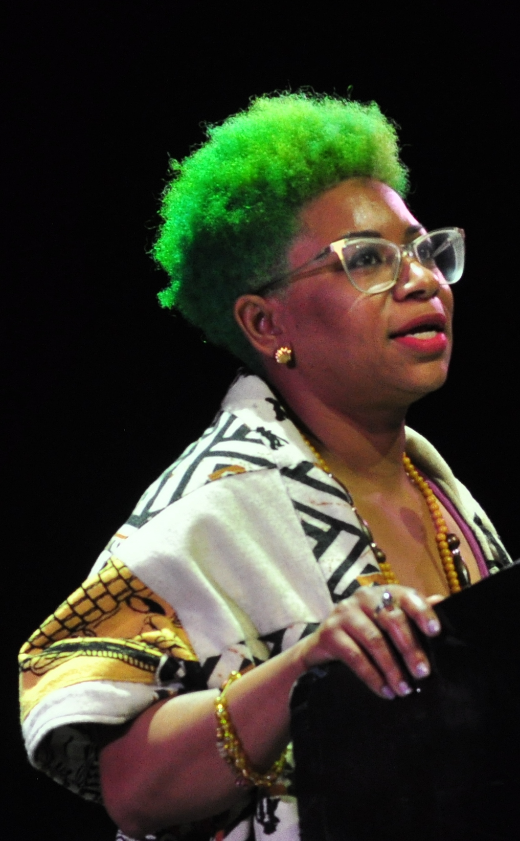 Zandria F. Robinson on the panel "'Ain't Got No, I Got Life': Vitality, Exuberance, and Life Force/Àṣẹ in Black Popular Music", Pop Conference 2019, MoPOP, Seattle Center, Seattle, Washington.